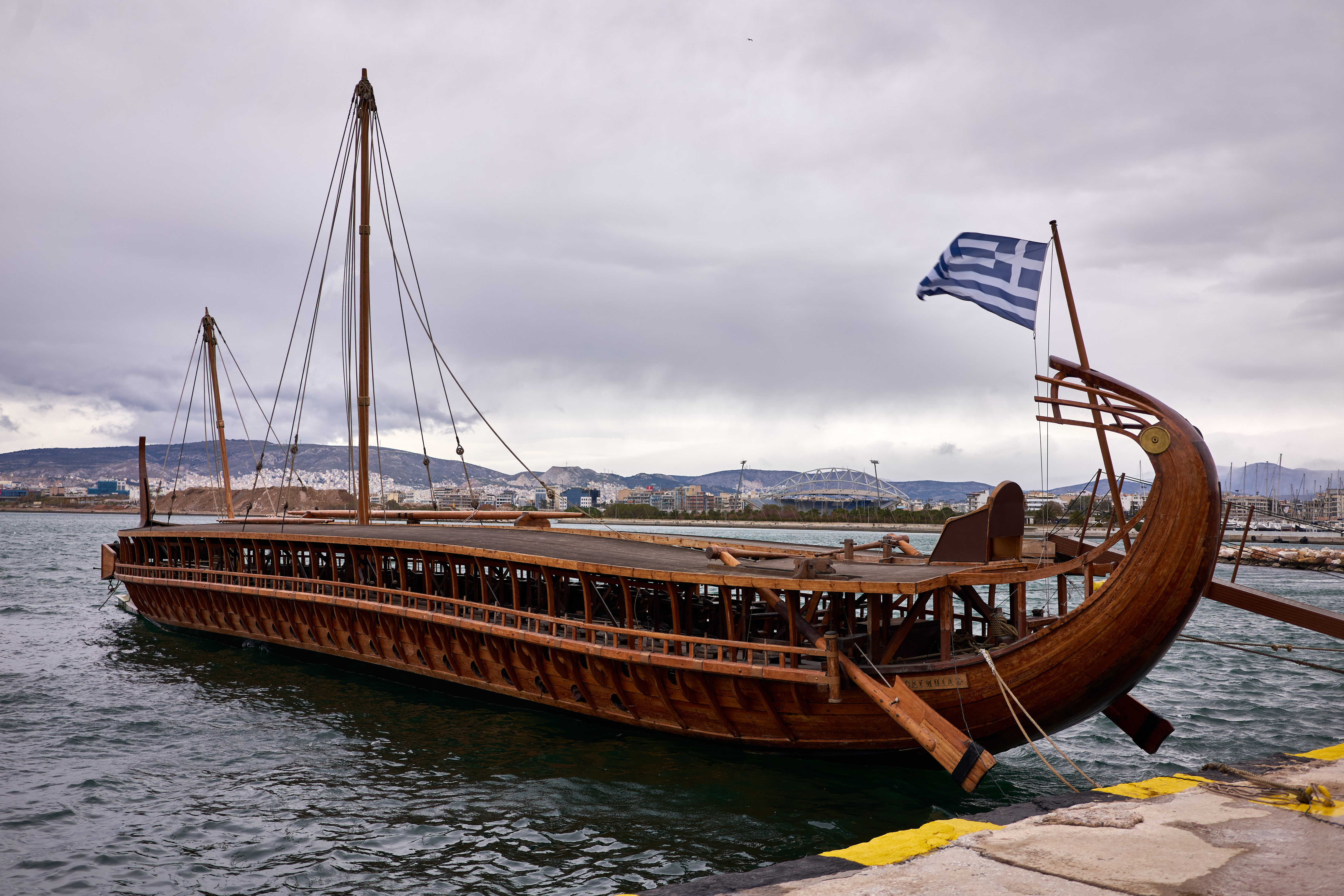 The reconstructed ancient Athenian trireme Olympias. Flisvos Marina, Paleo Faliro, Attica, Greece.